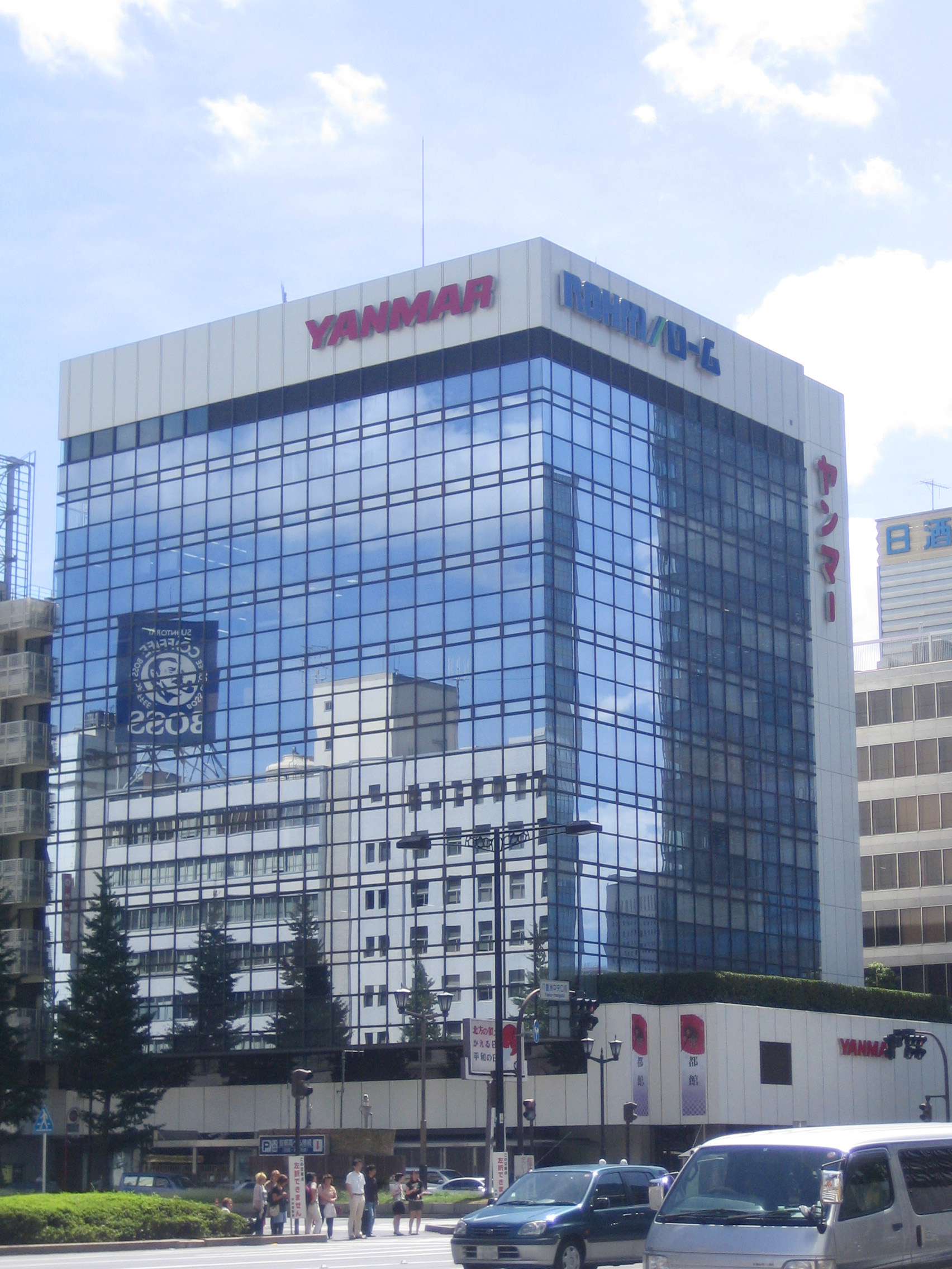 Yanmar Co., Ltd. (ヤンマー株式会社) Tokyo branch, at Yaesu, Chuo, Tokyo, Japan